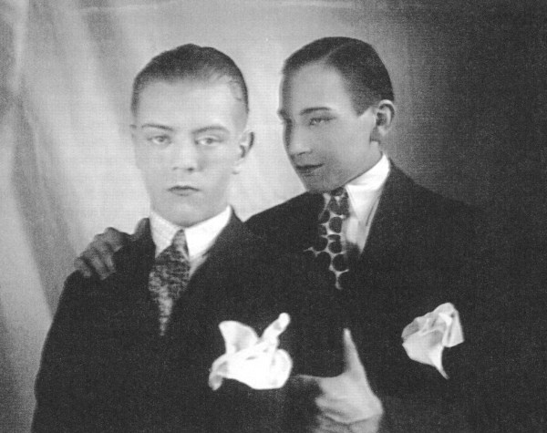 Young men Valentin Ivanoff (Valentin Vaala) and Theodor Tugai (Teuvo Tulio).